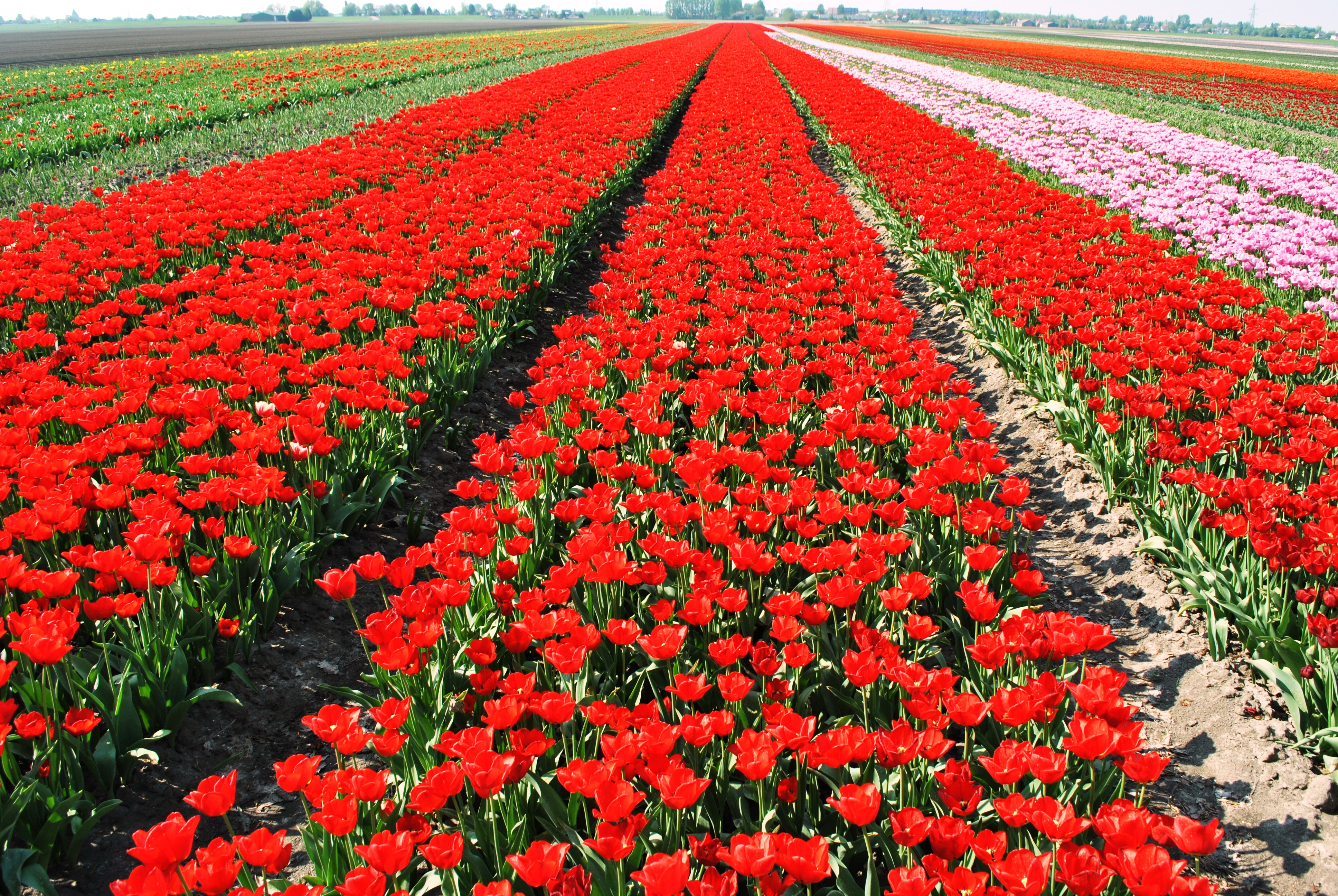 Lisse